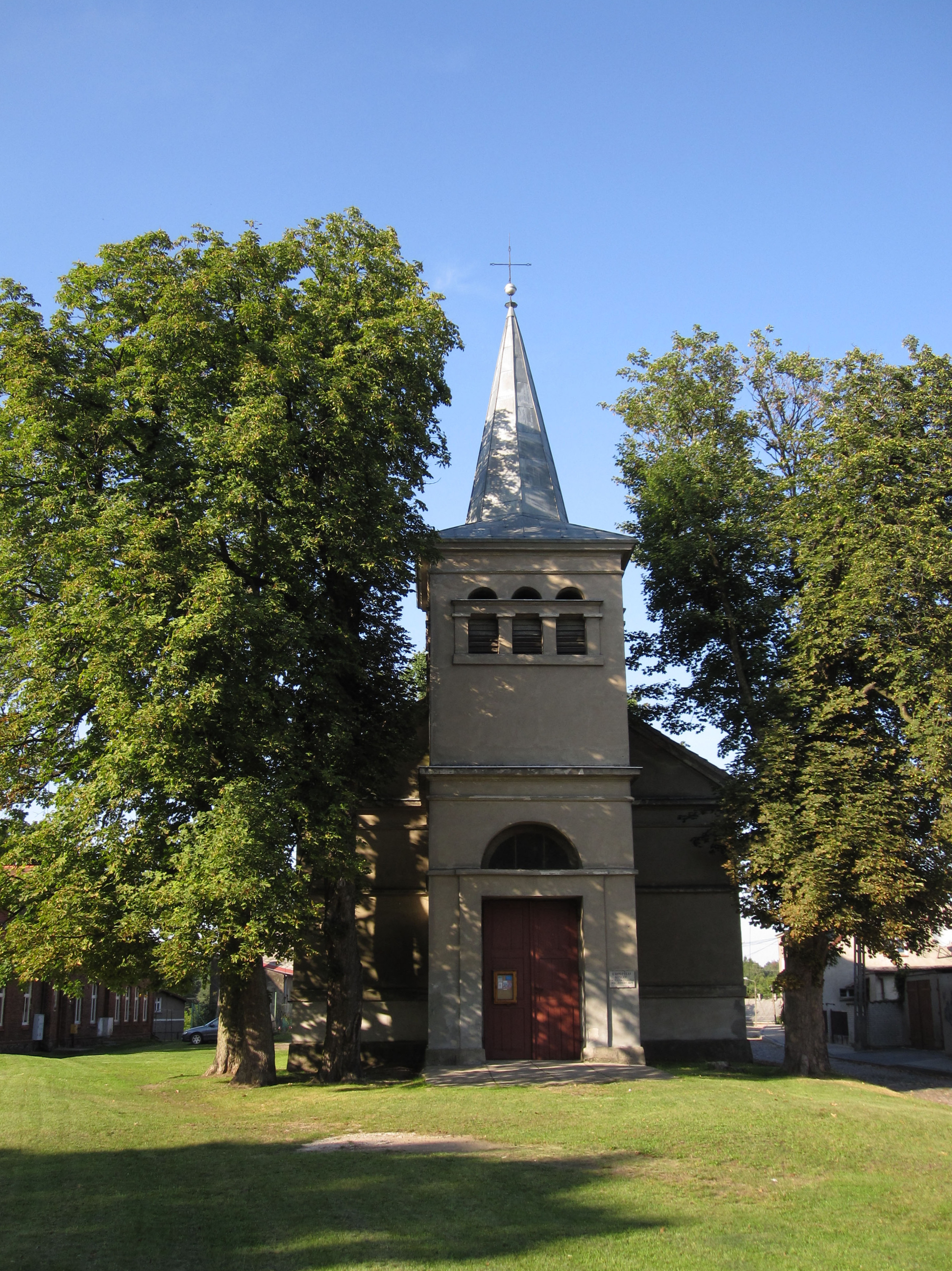 Augsburg Evangelical Church in Lidzbark